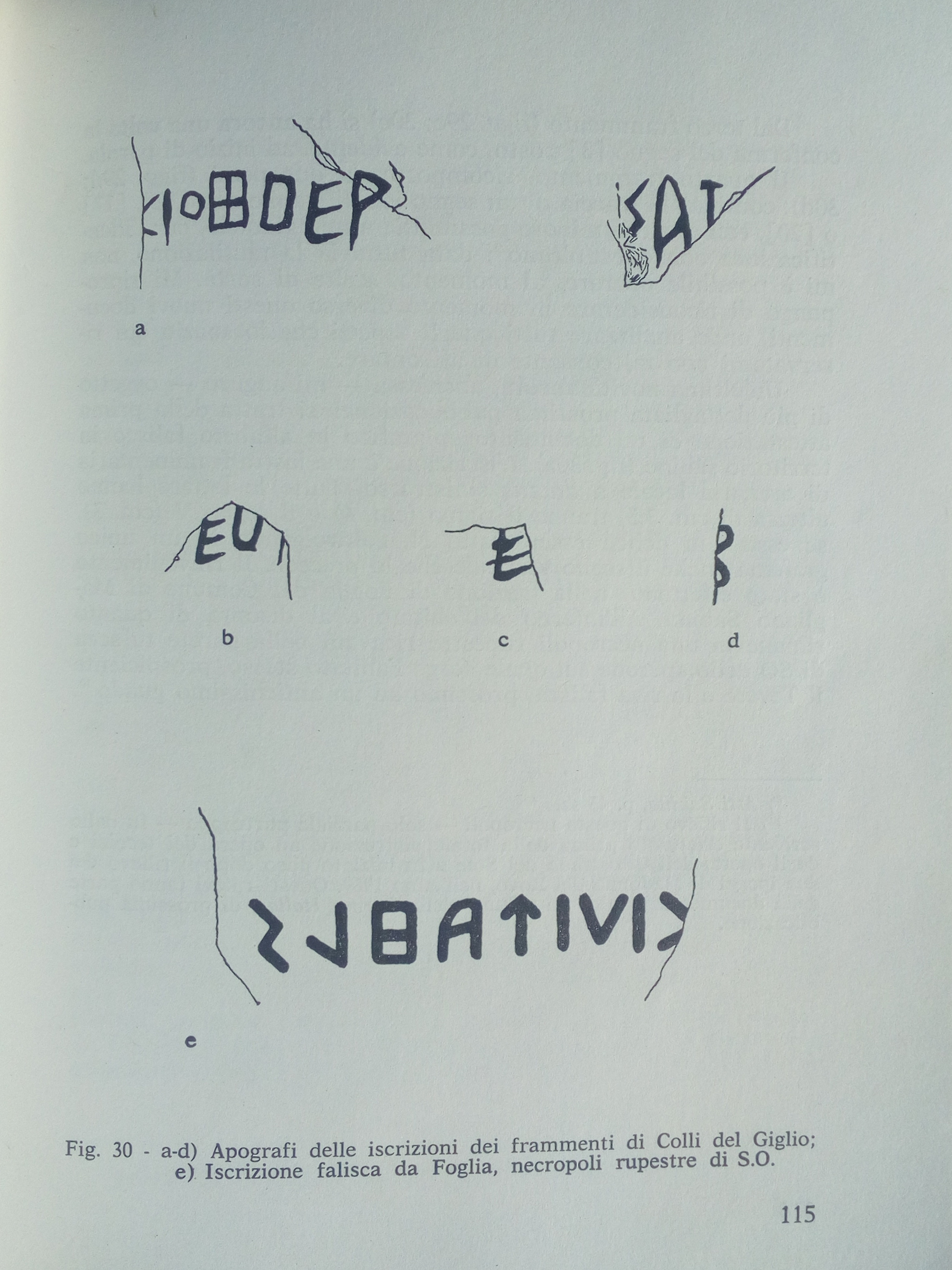 Iscrizione in lingua falisca, necropoli rupestre di Foglia, valle del Tevere